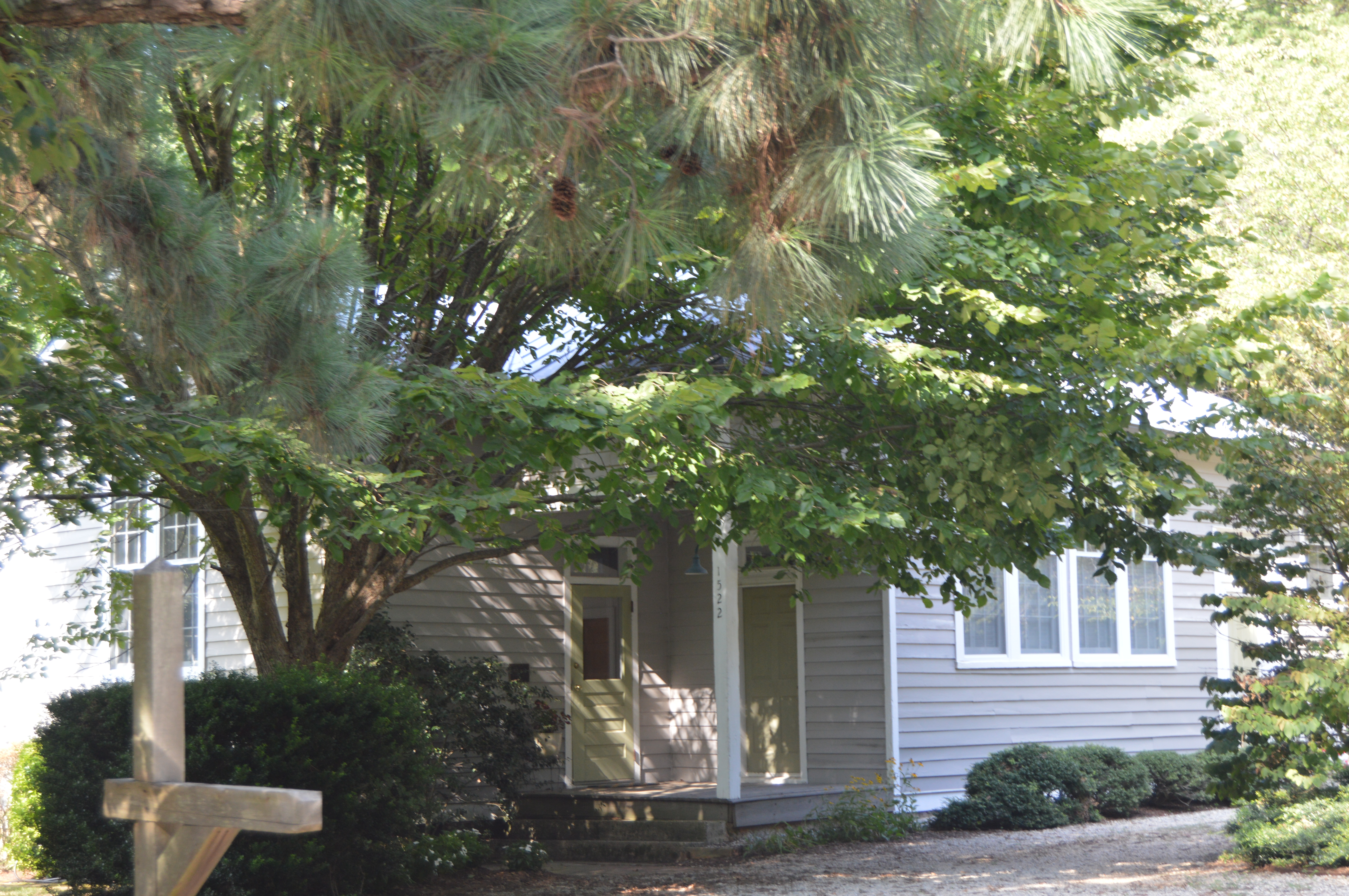 Front of the First Union School, located at 1522 Old Mill Road north of Crozier in Goochland County, Virginia, United States. Built in 1926, it is listed on the National Register of Historic Places.